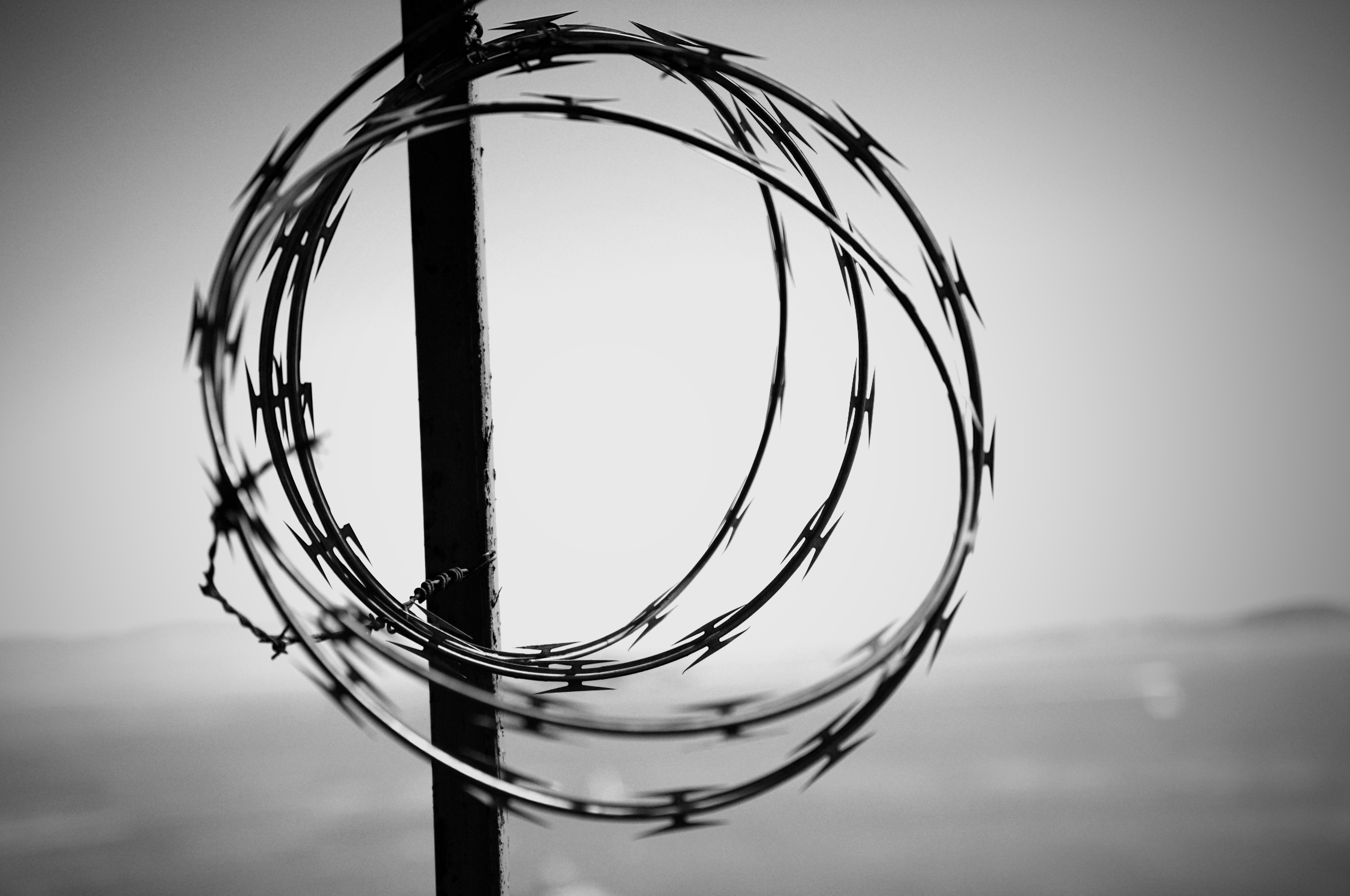 Barbed tape on the Golden Gate Bridge in San Francisco, California.